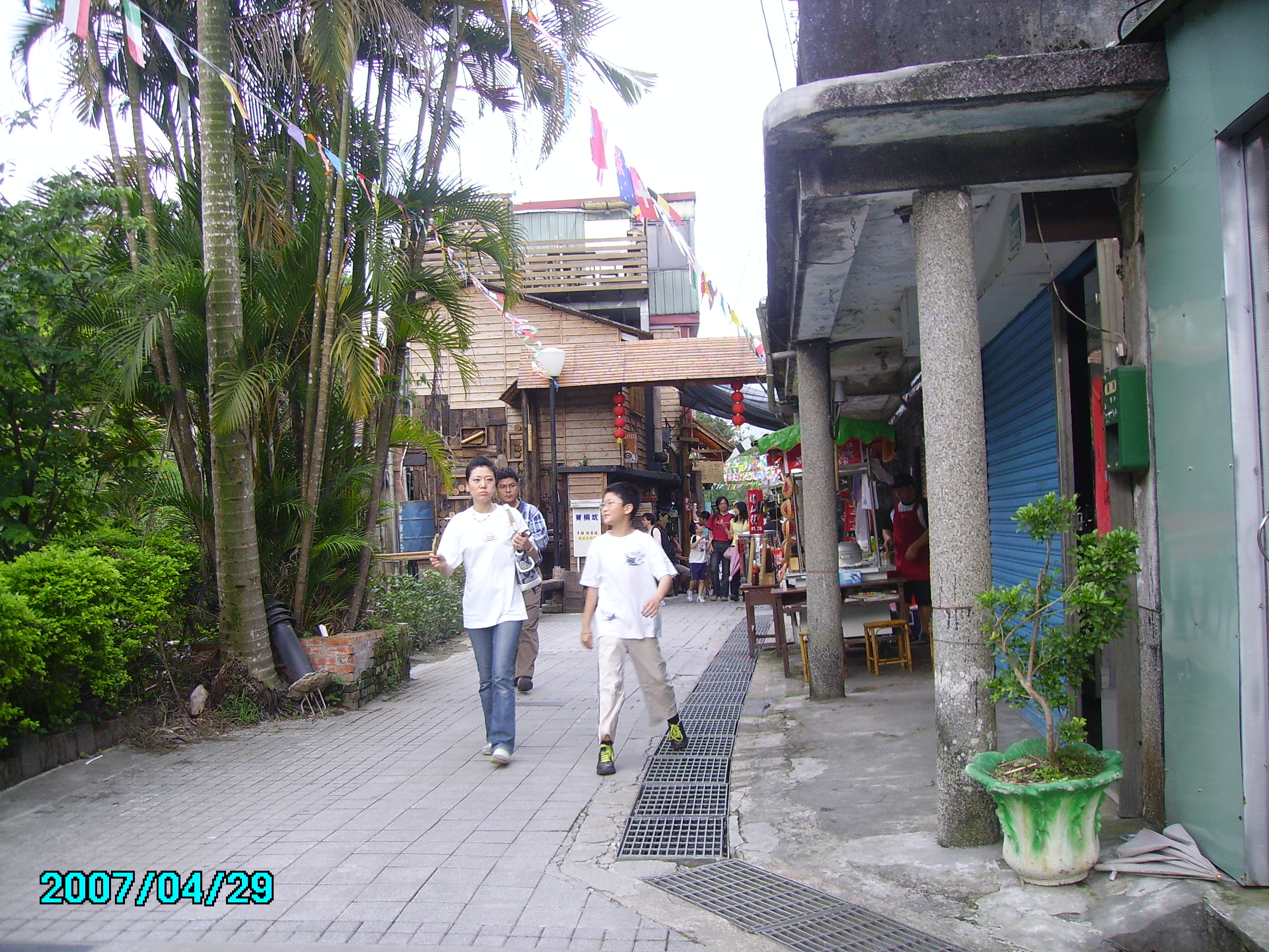 Jingtong Old Street, Pingsi Township, Taipei County. 中文（台灣）: 臺北縣平溪鄉菁桐老街。